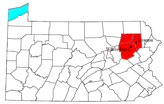 Locator map of the Scranton-Wilkes-Barre Metropolitan Statistical Area in the northeastern part of the U.S. state of Pennsylvania.